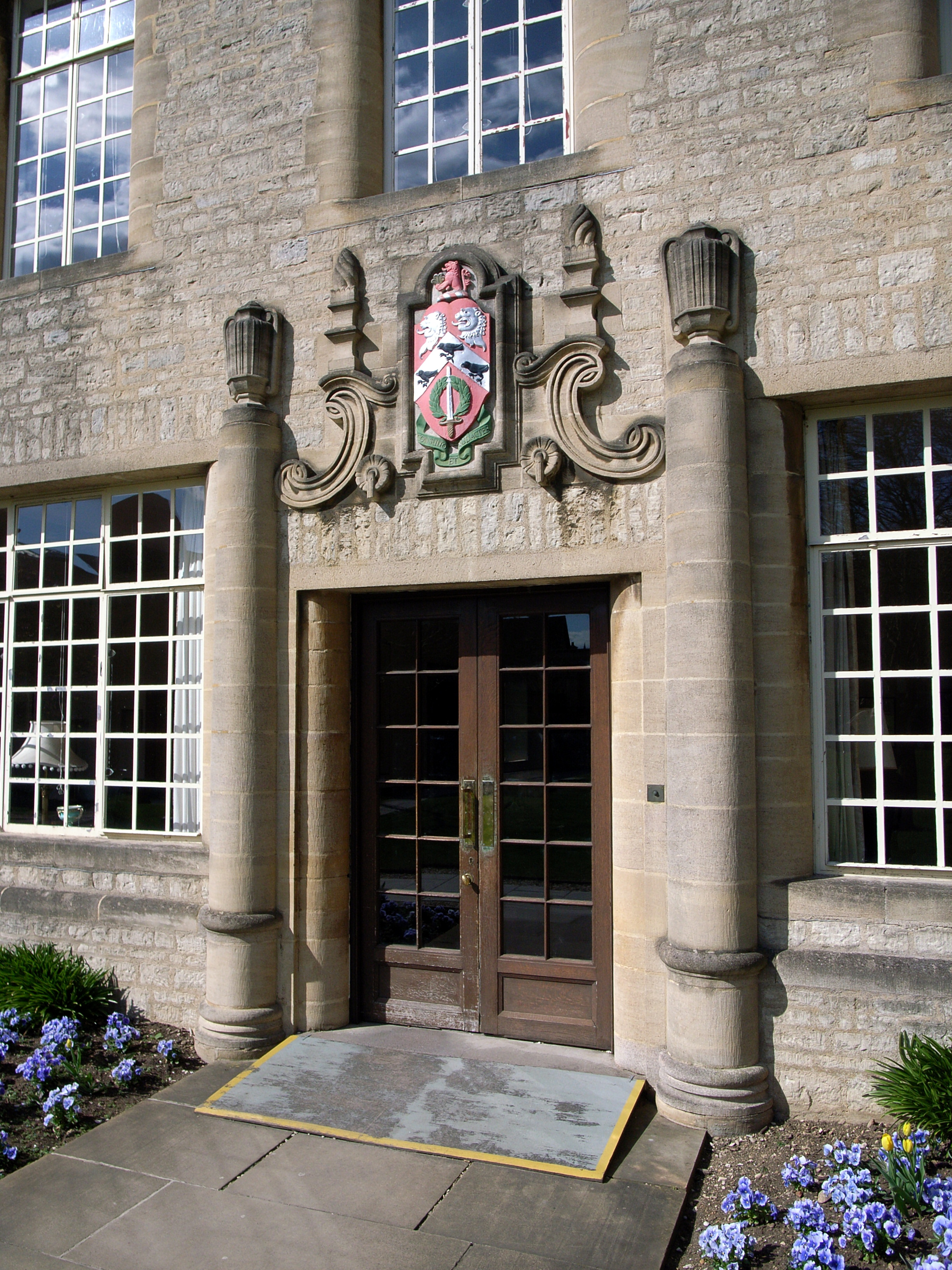 The main entrance to Hartland House at St Anne's College, Oxford